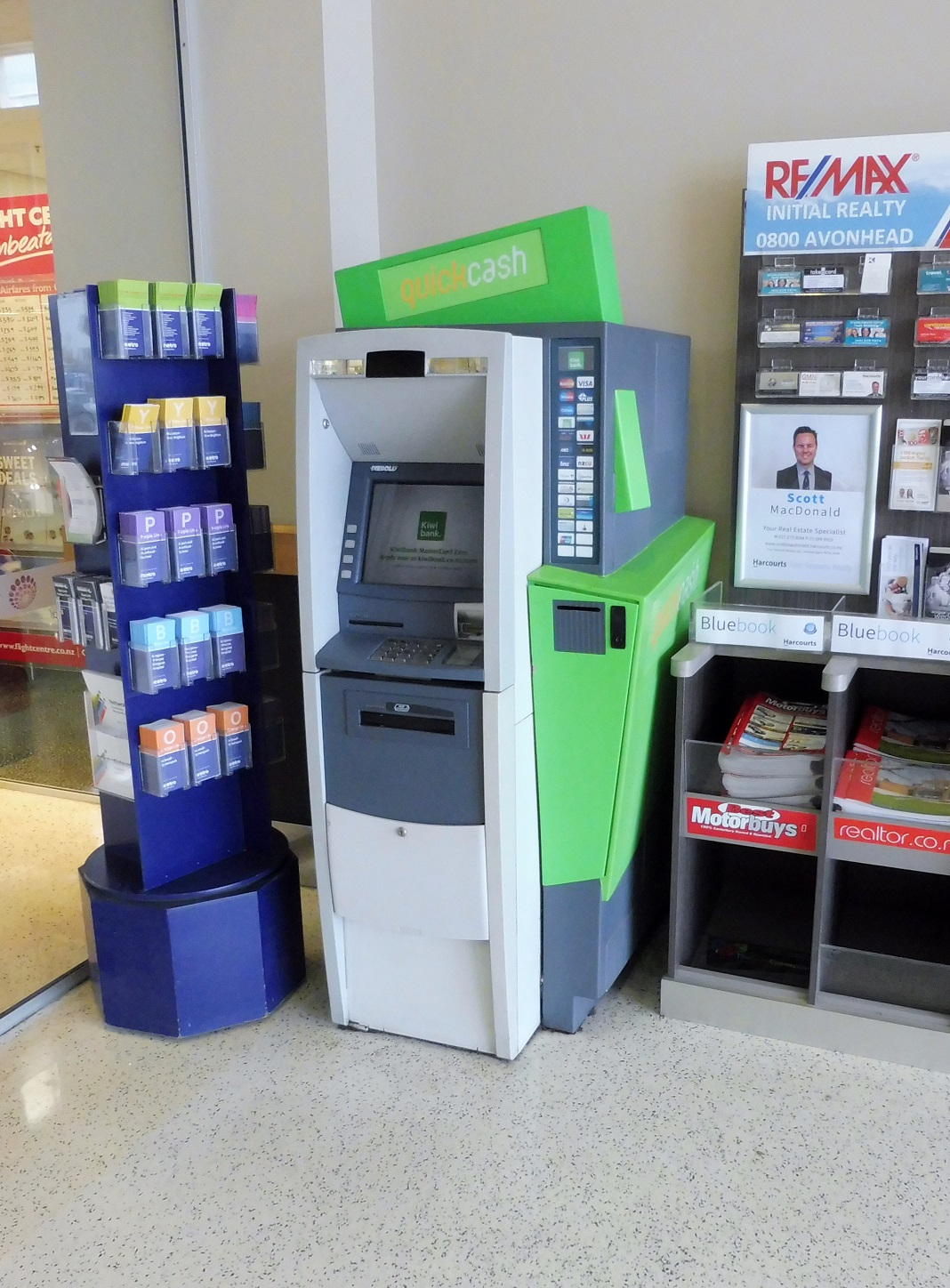 Automated teller machine for New Zealand bank Kiwibank at The Hub shopping centre in Hornby, Christchurch in 2016.